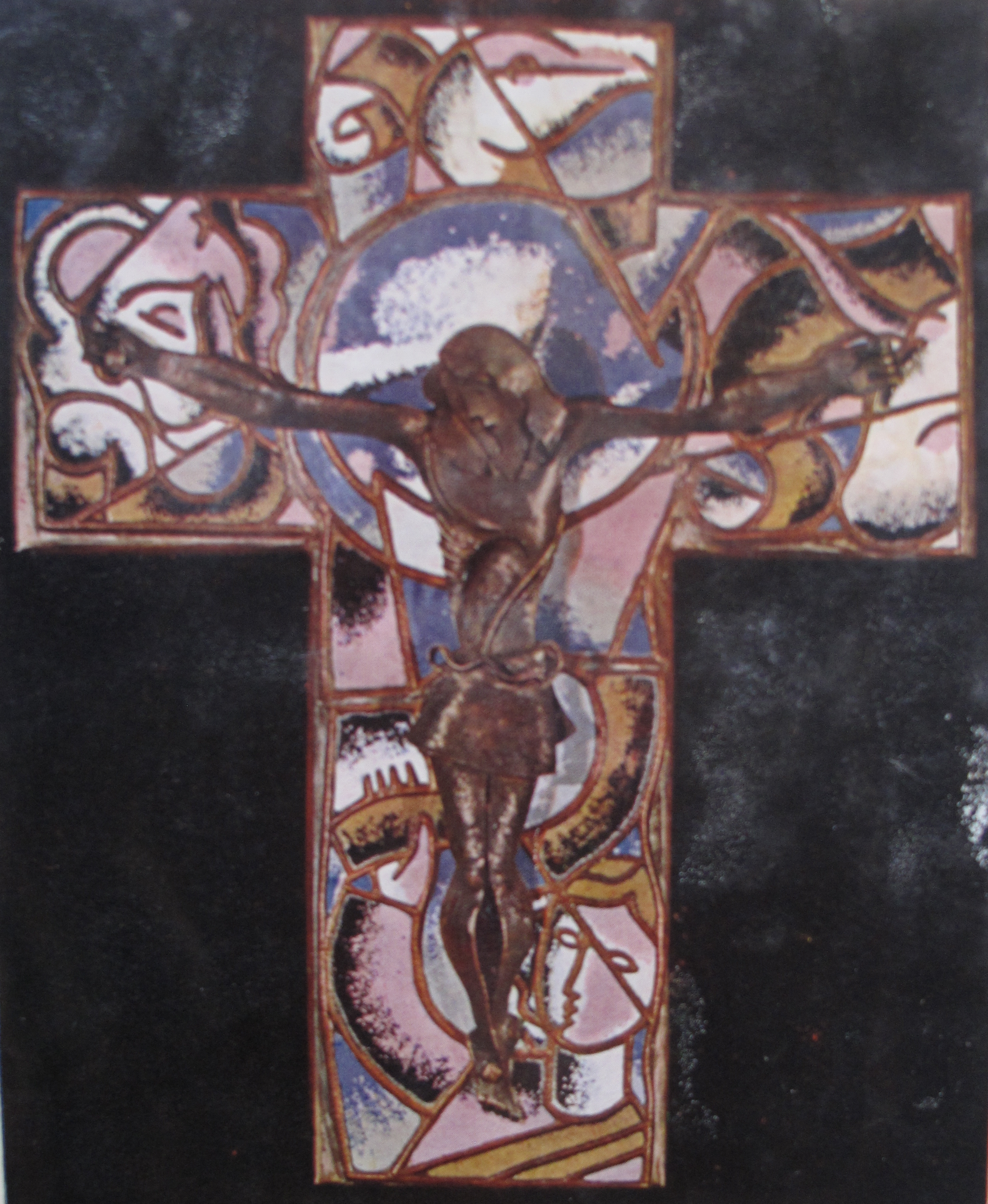 Creu esmaltada amb Crist de ferro treballat de Carles Collet